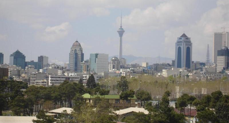 Tehran Skyline with Milad tower seen in the background, taken in May 2007.